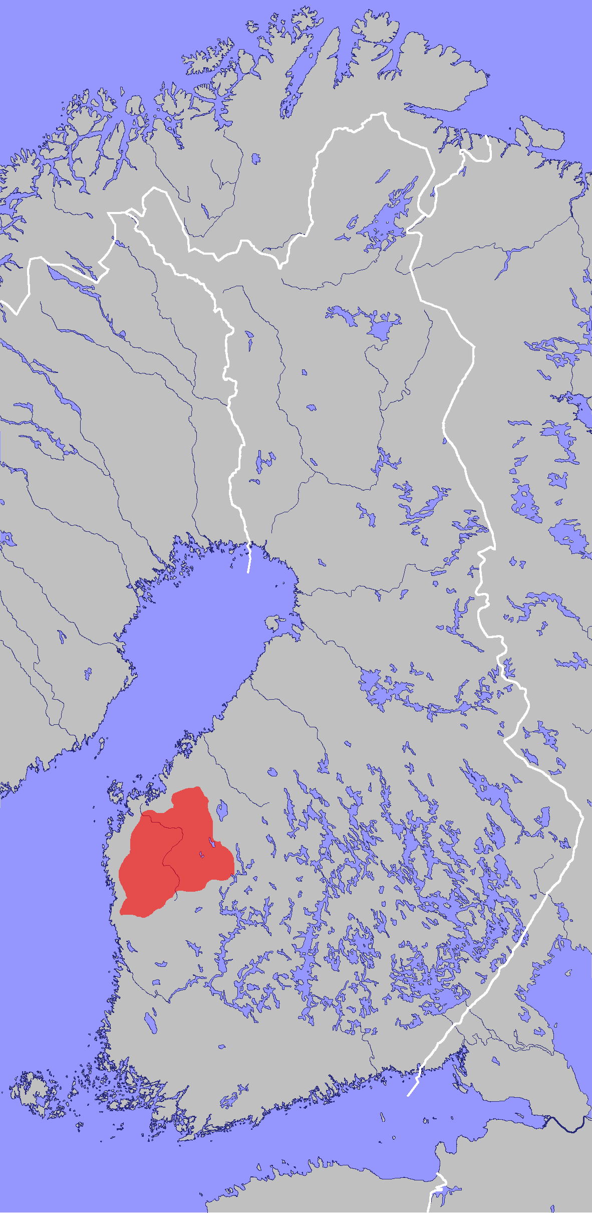 Area where Southern Ostrobothnian dialect of Finnish are spoken